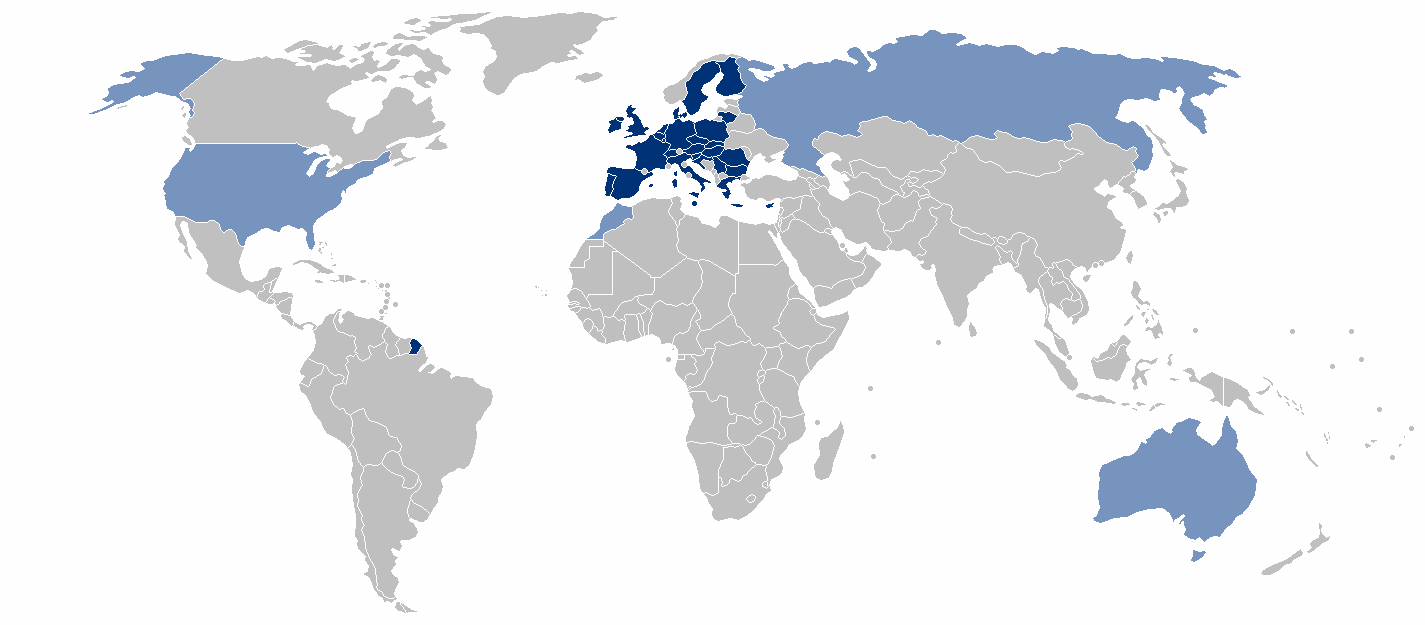 Lidl stores worldwide. Dark blue: Current countries Lidl operates in. Light blue: Planned expansion.